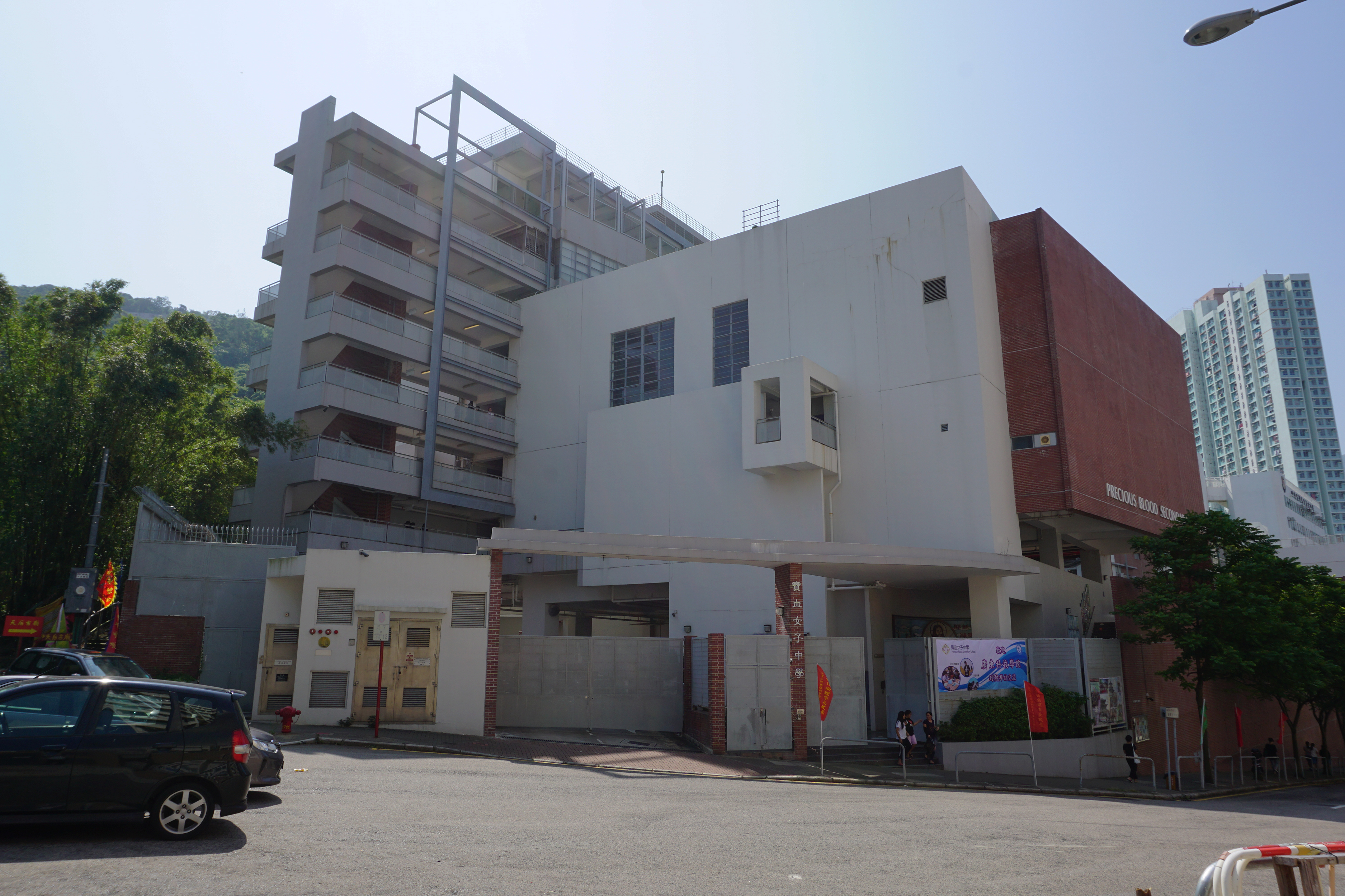 Precious Blood Secondary School in Chai Wan, Hong Kong.